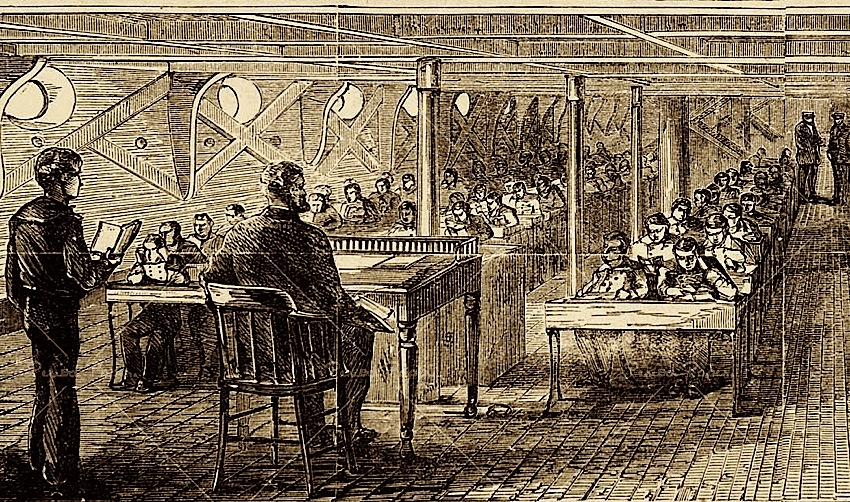 New York penitentiary school ship "Mercury"